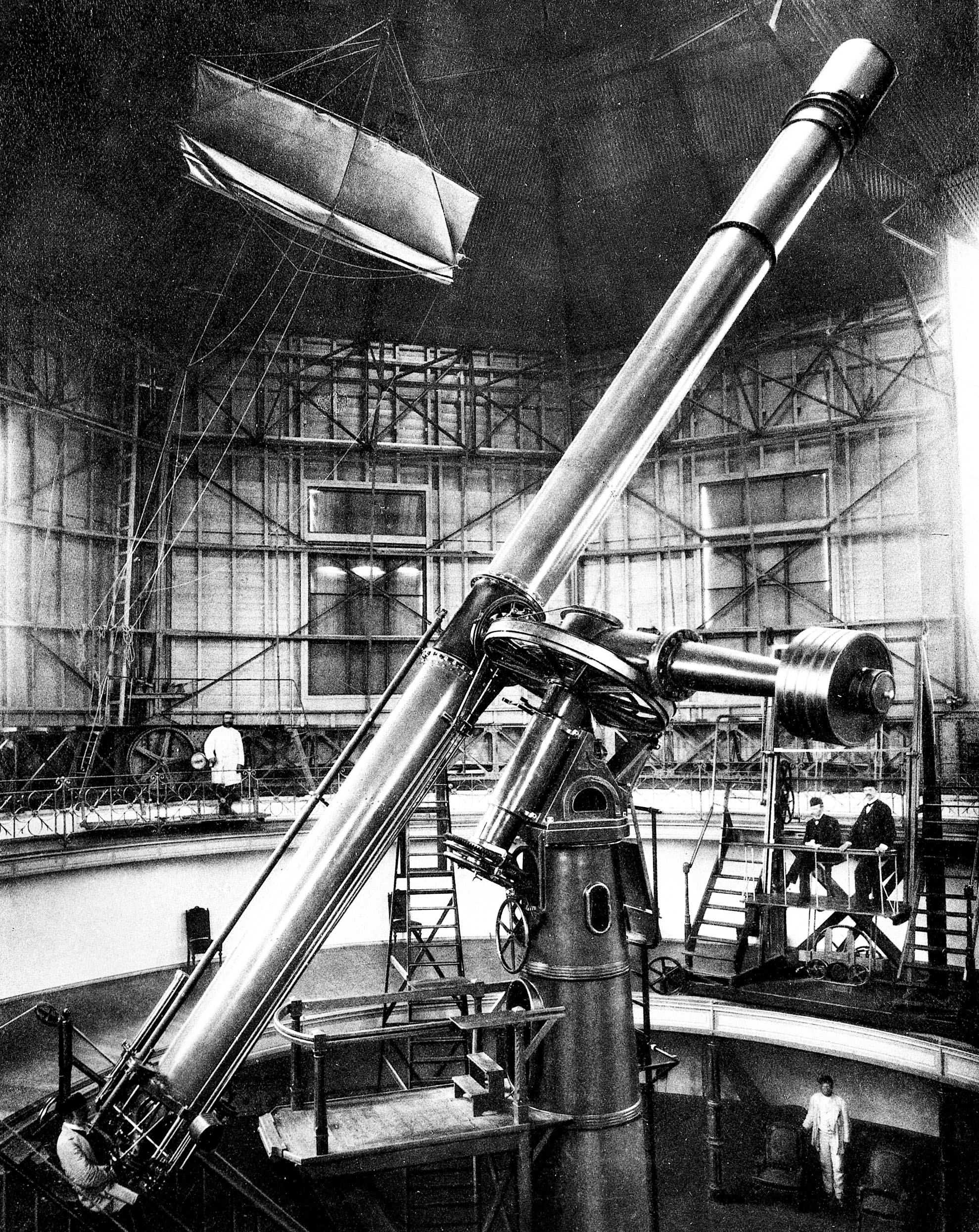 the Big Refractor (14m) of the astronomical observatory in Pulkowo, built 1884 by A. Repsold Söhne in Hamburg.